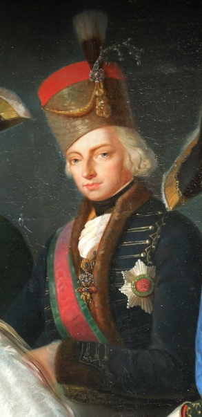 Joseph I, Palatine of Hungary